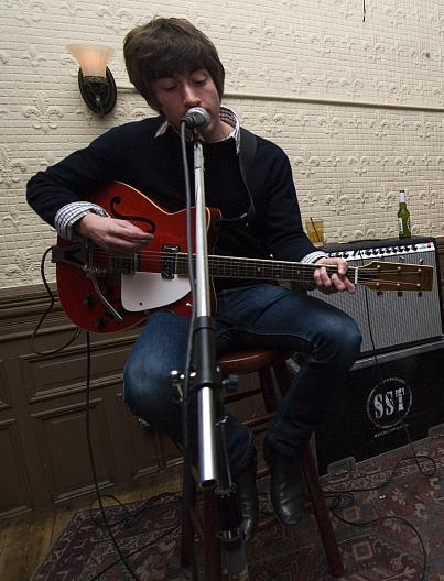 The Last Shadow Puppets (Sound Fix) 006